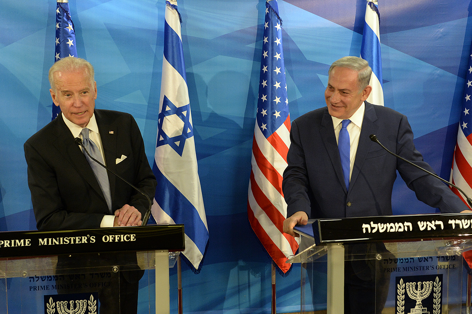 Vice President Joe Biden visit to Israel March 2016 Meet with PM Benjamin Netanyahu